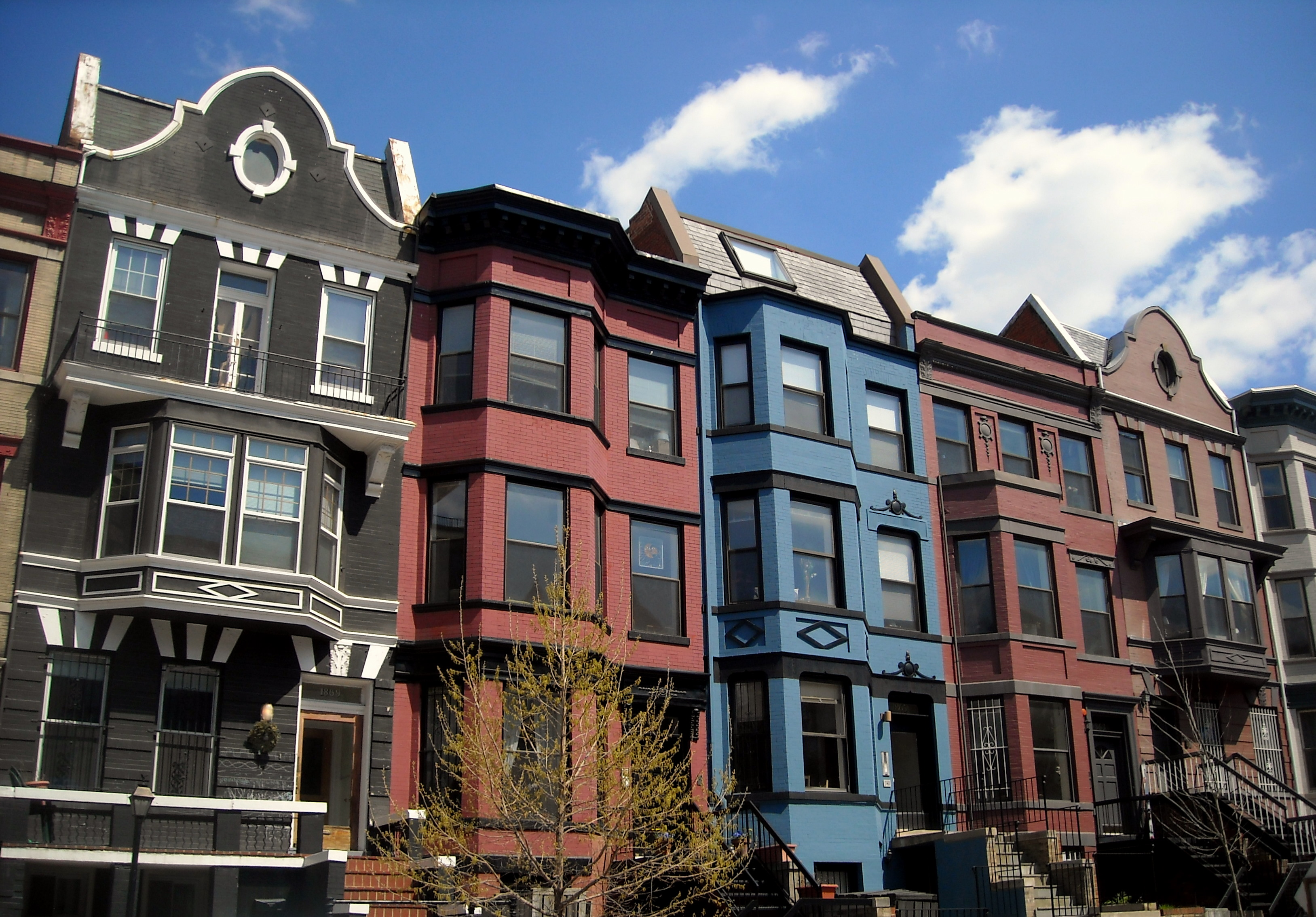 Row houses located at (from right to left) 1861–1869 California Street, N.W., in the Adams Morgan neighborhood of Washington, D.C. Built in 1904, the Queen Anne-style homes are designated as contributing properties to the Washington Heights Historic District, listed on the National Register of Historic Places in 2006.